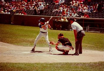 I took this photo of Bill Buckner at Wrigley Field on June 11, 1981, during a doubleheader sweep by the Cubs over the Giants.